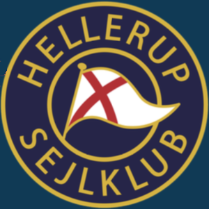 Hellerup Sejlklub Ensign